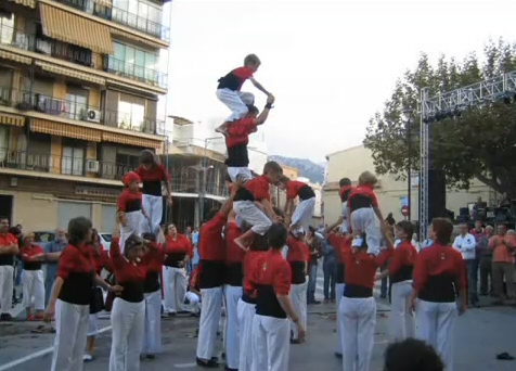 La Muixeranga de Sueca